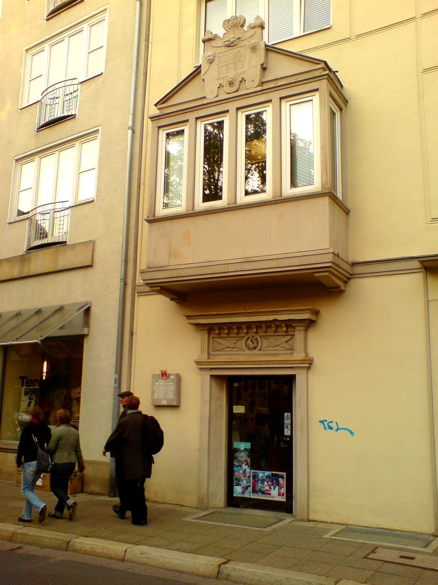 Verlag Hahnsche Buchhandlung